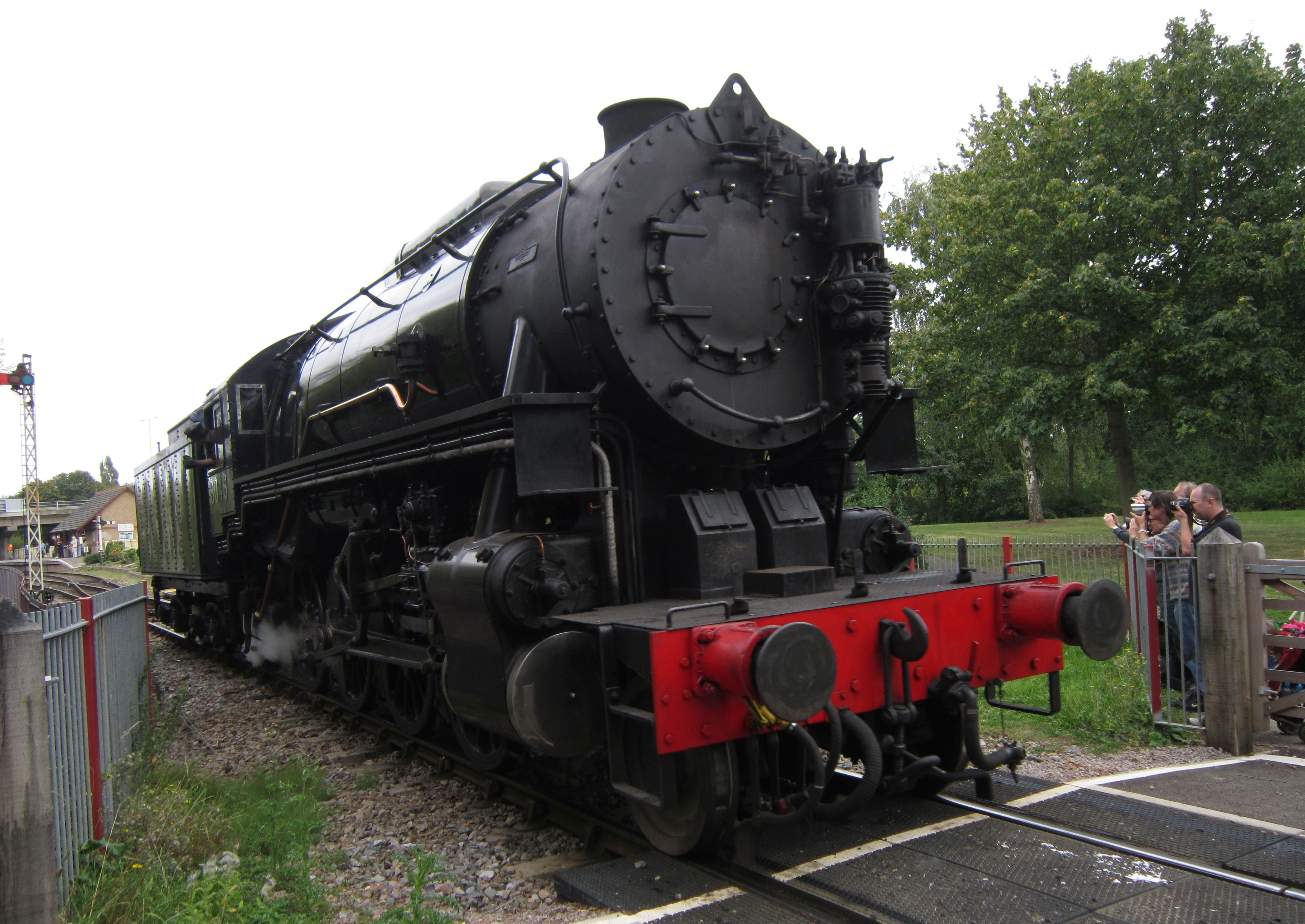 USATC S160 Class 6046 at Orton Mere railway station